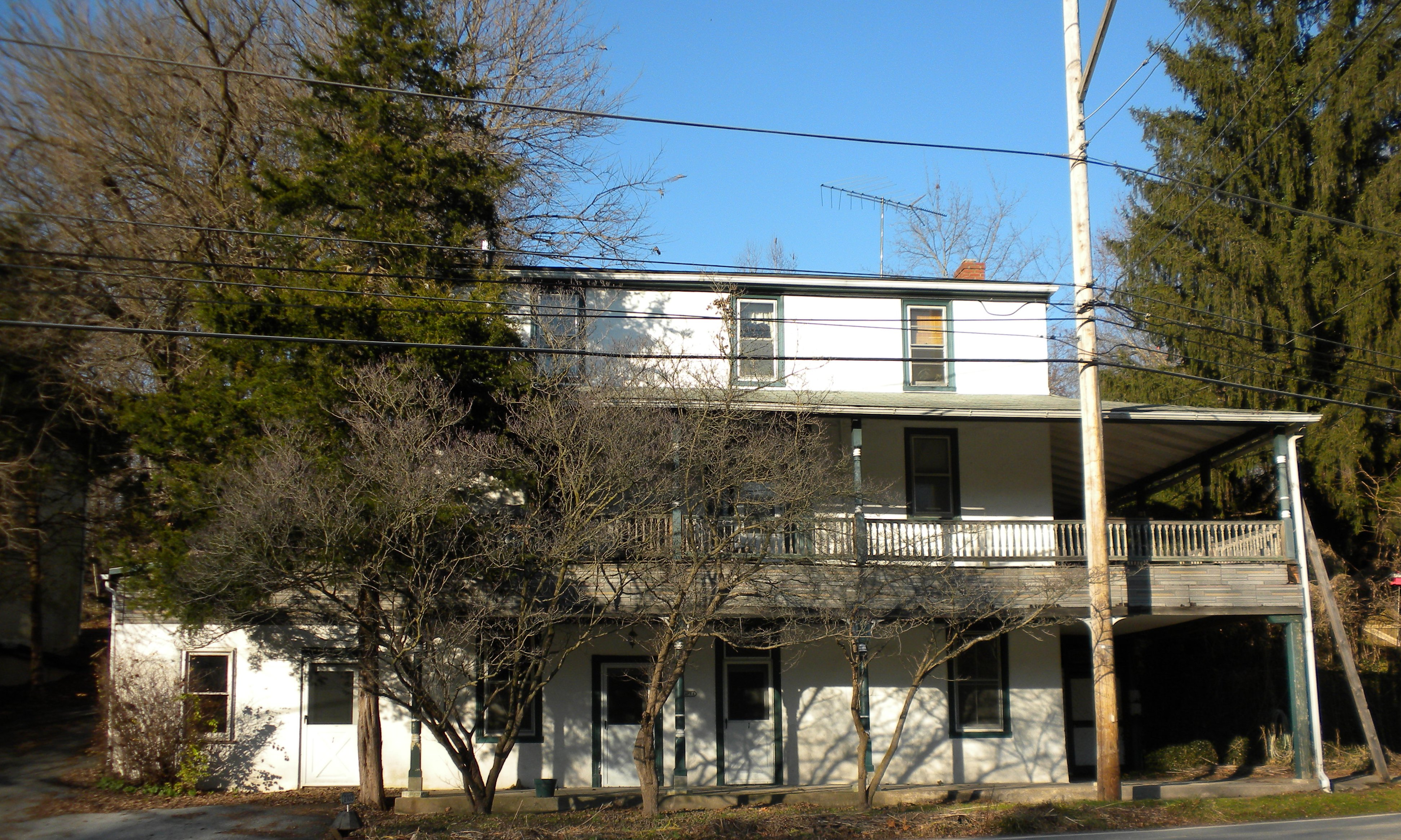 Mortonville Hotel on NRHP, in Mortonville, PA (a very small town near Coatsville) in Chester County, PA. Next to the NRHP listed Mortonville Bridge across Brandywine Creek (West Branch). This photo is my own work and I donate it to the public domain.